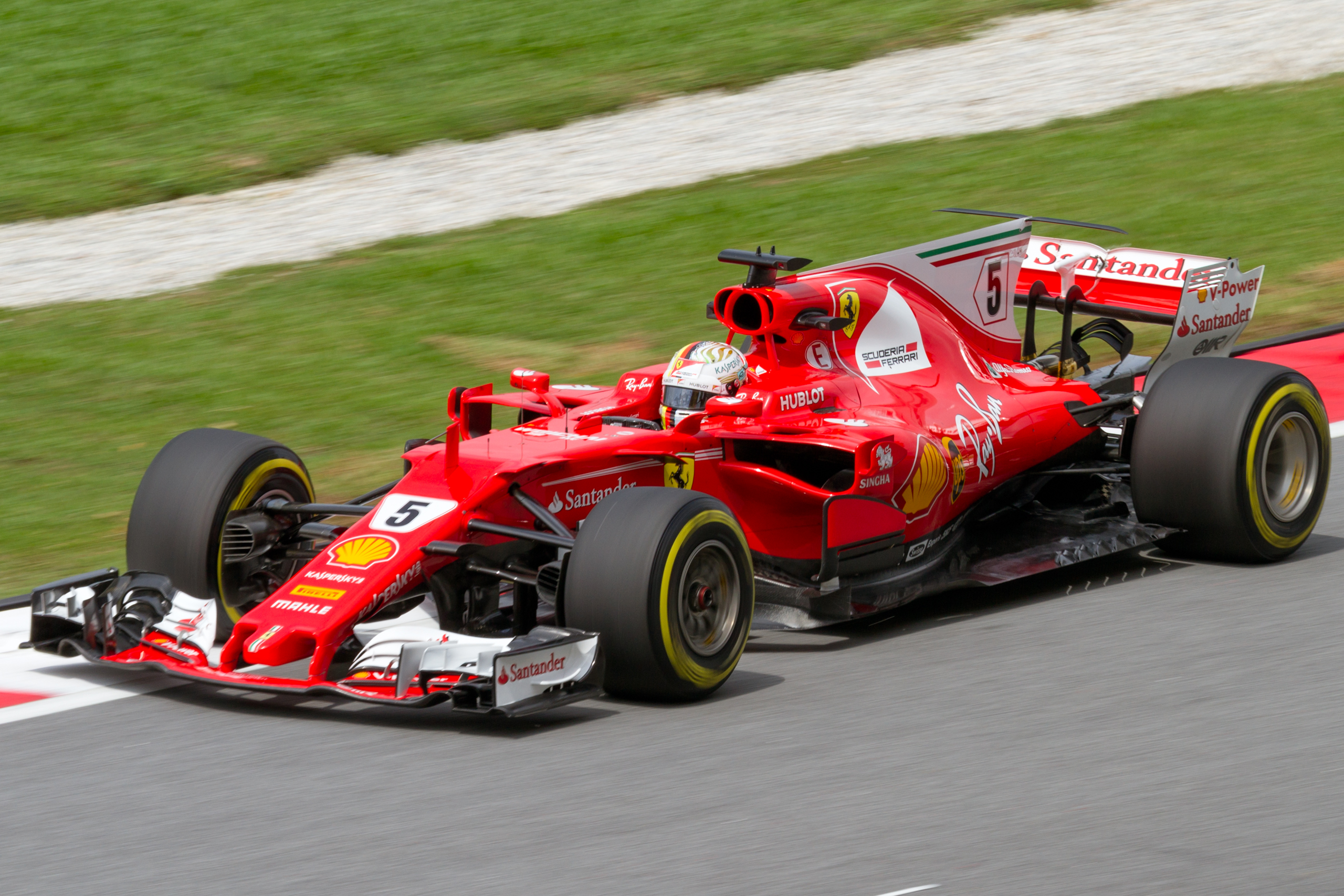 Formula One 2017 Rd.15 Malaysian GP: Sebastian Vettel (Ferrari)